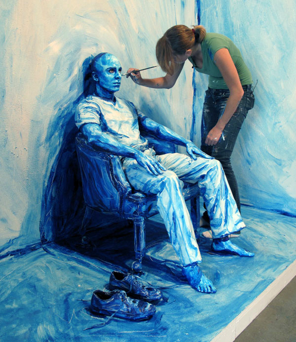 Alexa Meade paints her subject in